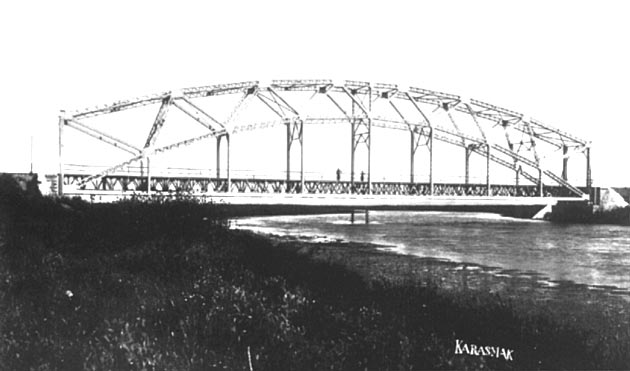 The railway bridge over Loudias River, on the Salonique-Monastir railway line (now Thessaloniki-Florina line).